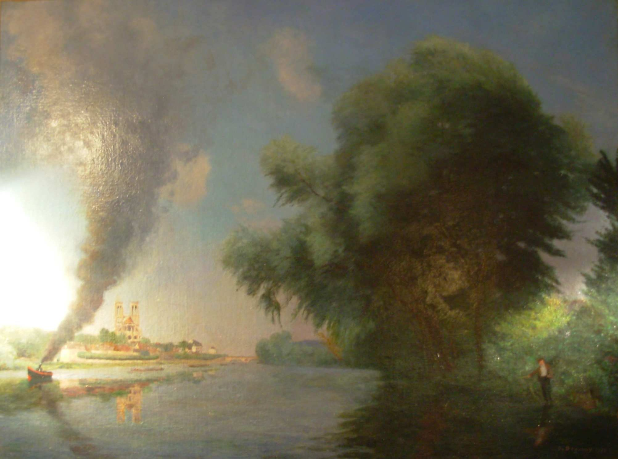 Collégiale de Mantes-la-Jolie